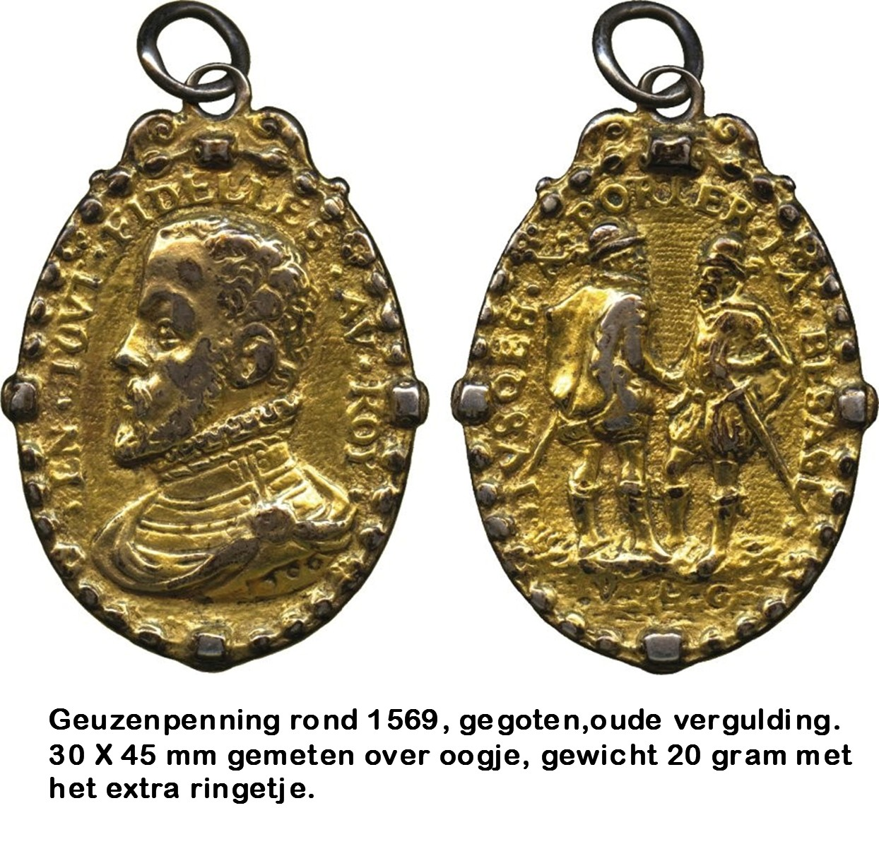 Beggars badge (geuzenpenning) barok, about 1568, silver, cast